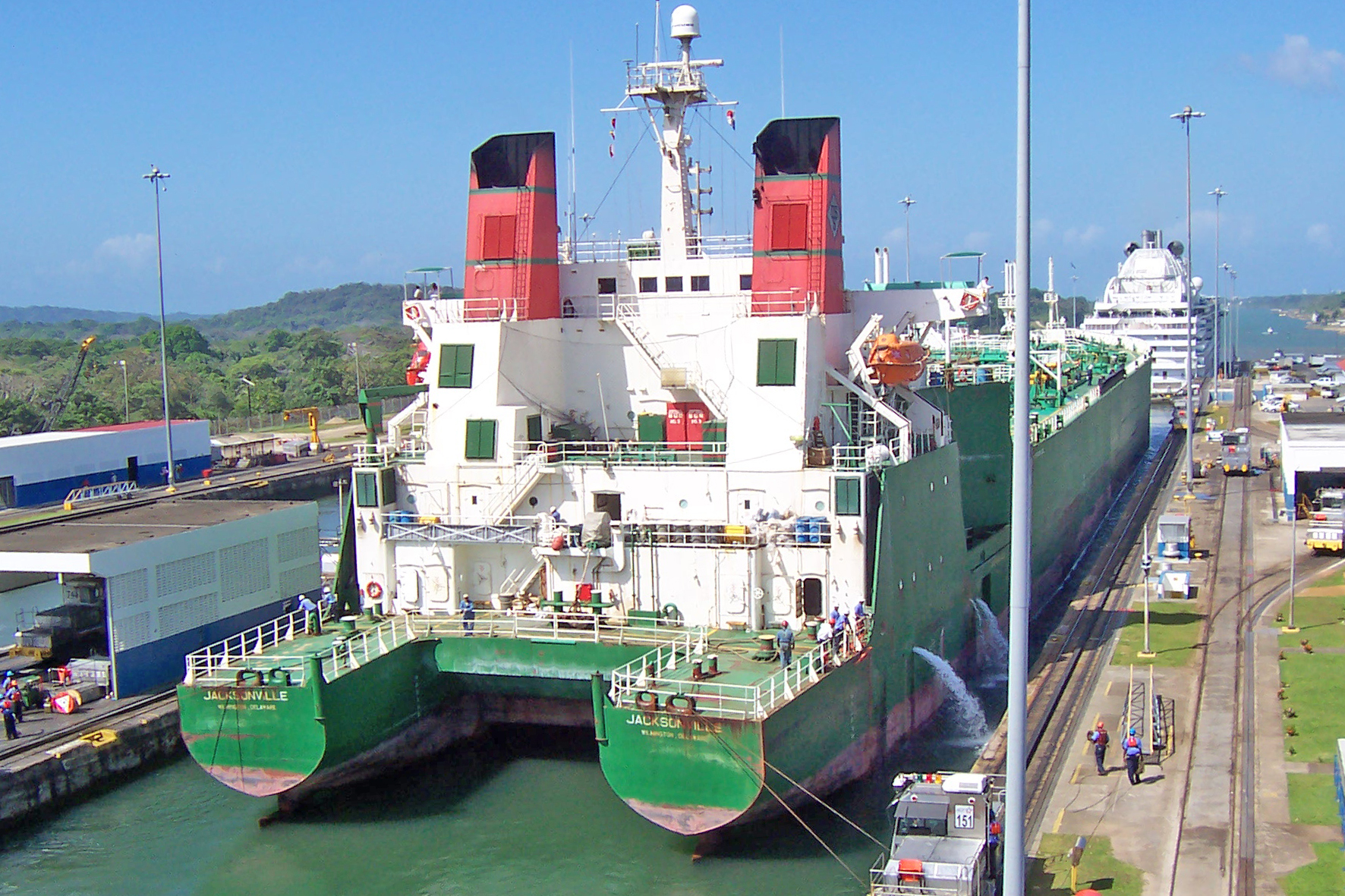 Panama Canal, Ship in lock